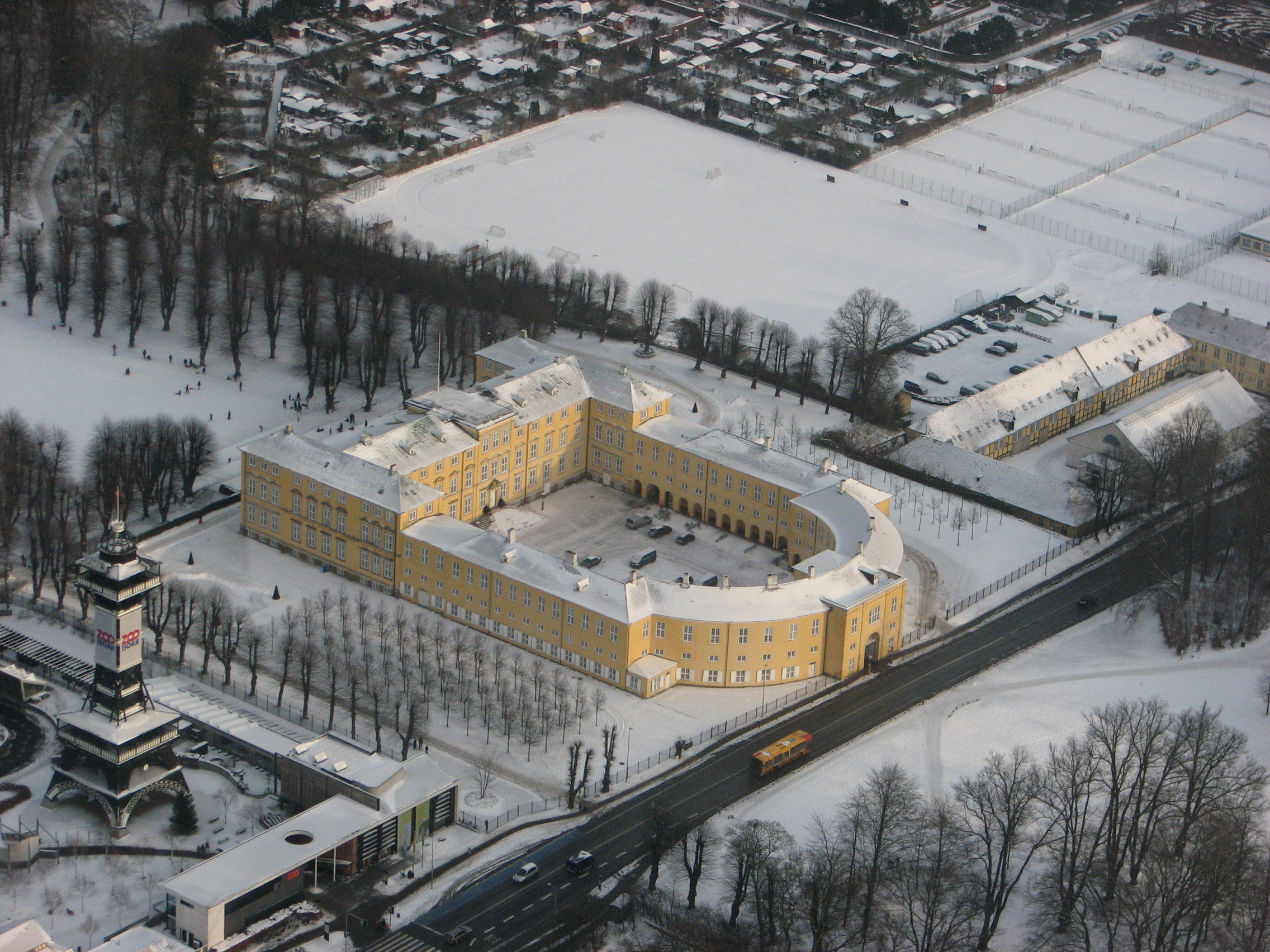 Frederiksberg Palace in Copenhagen viewed from the air on a winter day.